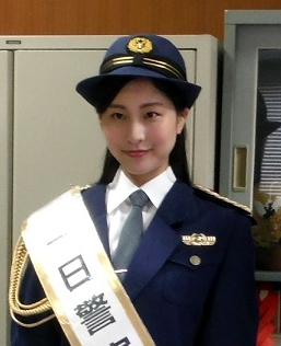 Momoka Yoshida, Honorary Chief of Sakurai Police Station for one day, met Kazuki Imanishi, Chief of Sakurai Police Station, at Sakurai Police Station in Sakurai City, Nara Prefecture on September 21, 2018.